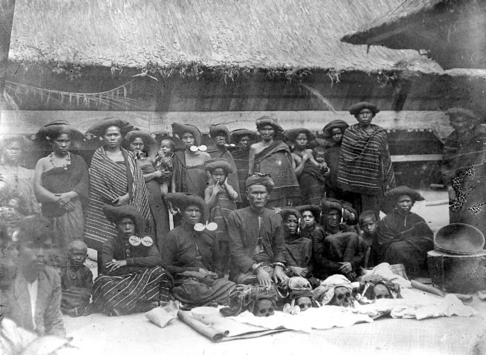 Karo-Batak man with family and the skulls of their ancestors